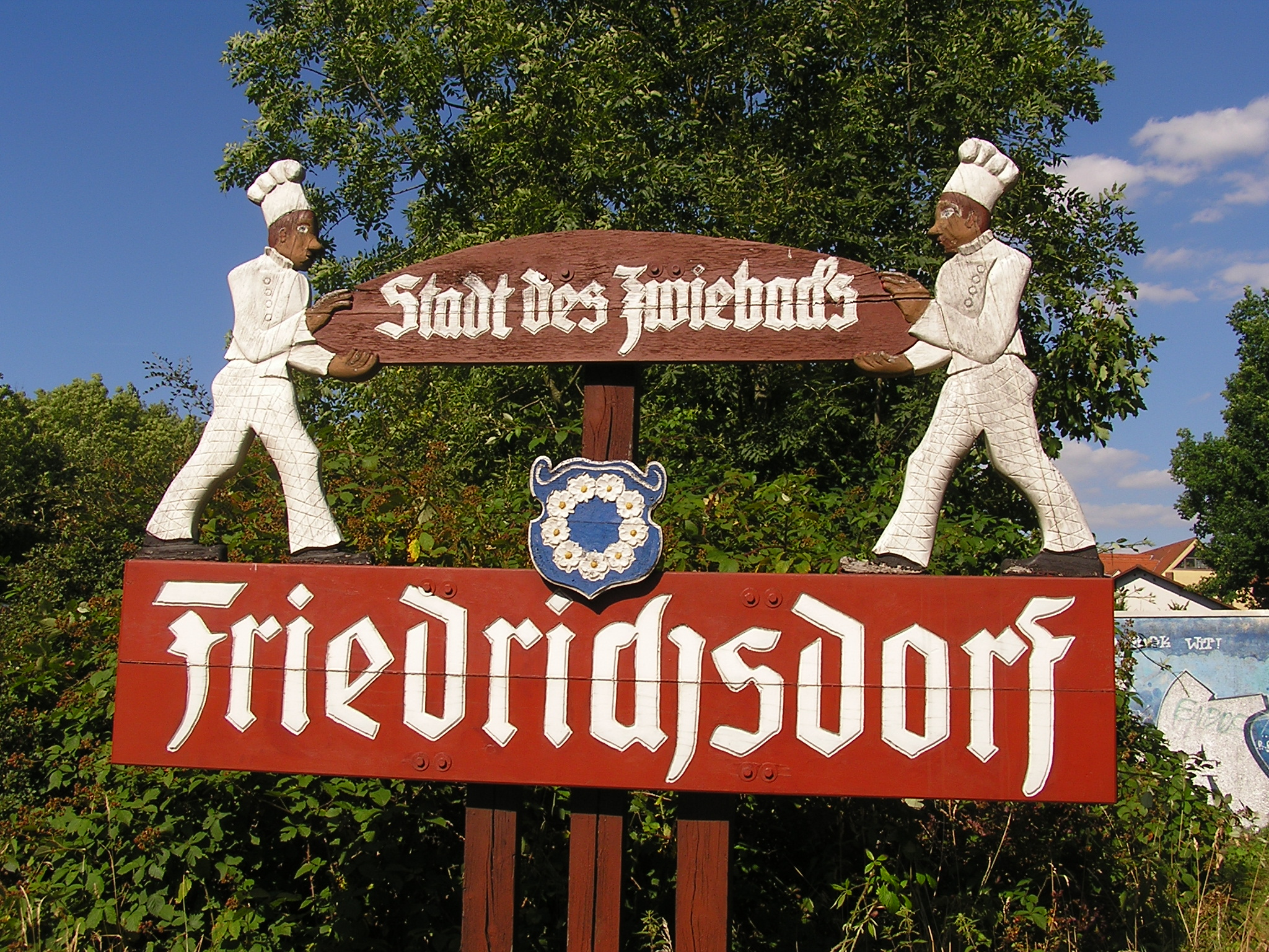 Sign Friedrichsdorf, city of the Zwieback at the way into the city from Bad Homburg